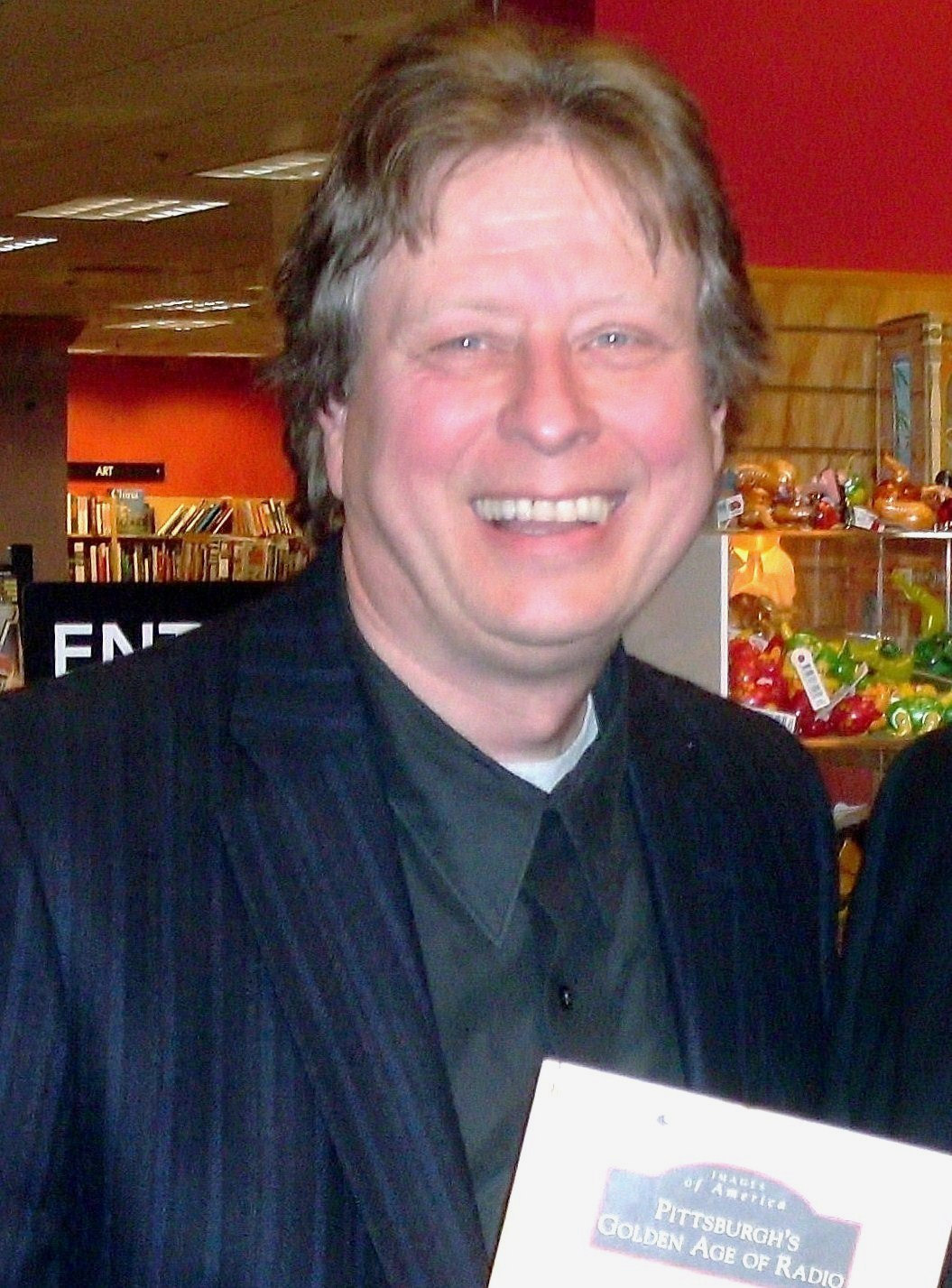 Ed Salamon at a book signing for "Pittsburgh's Golden Age of Radio"